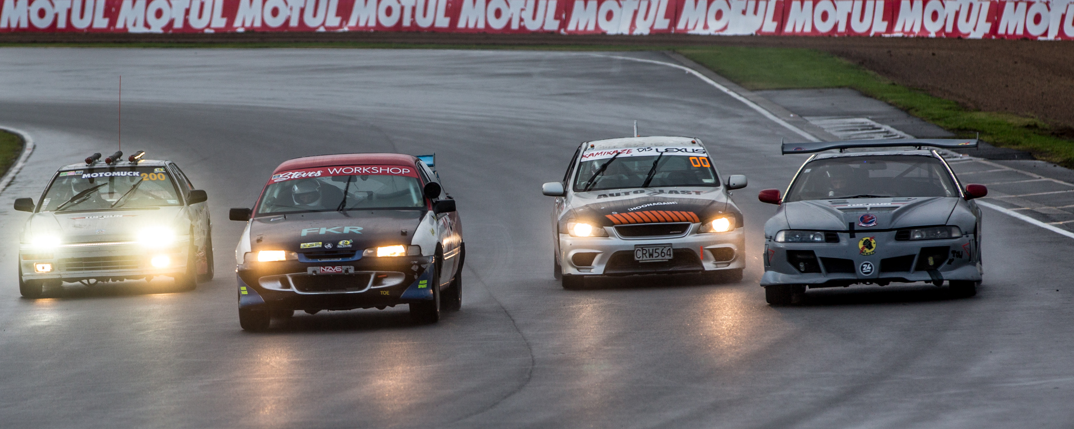 NZ's first ever continuous 24 hour motorsport event. May 2018 at Hampton Downs.